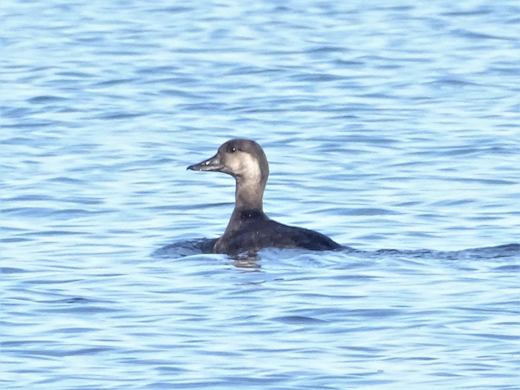 Female-type Melanitta americana photographed in Ottawa, Canada